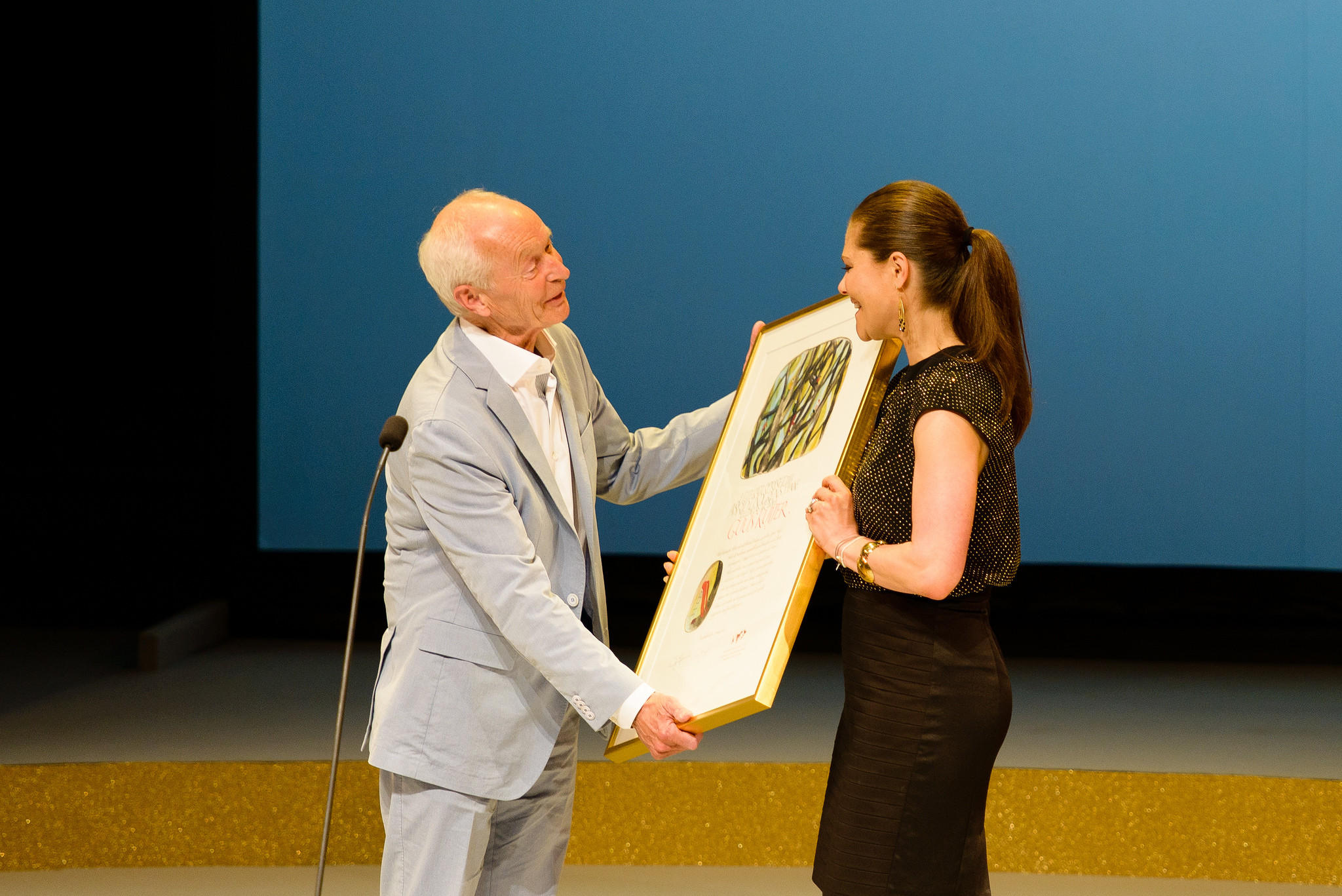 Crown Princess Victoria of Sweden presents the 2012 Astrid Lindgren Memorial Award (ALMA) to author Guus Kuijer at the Stockholm Concert Hall.